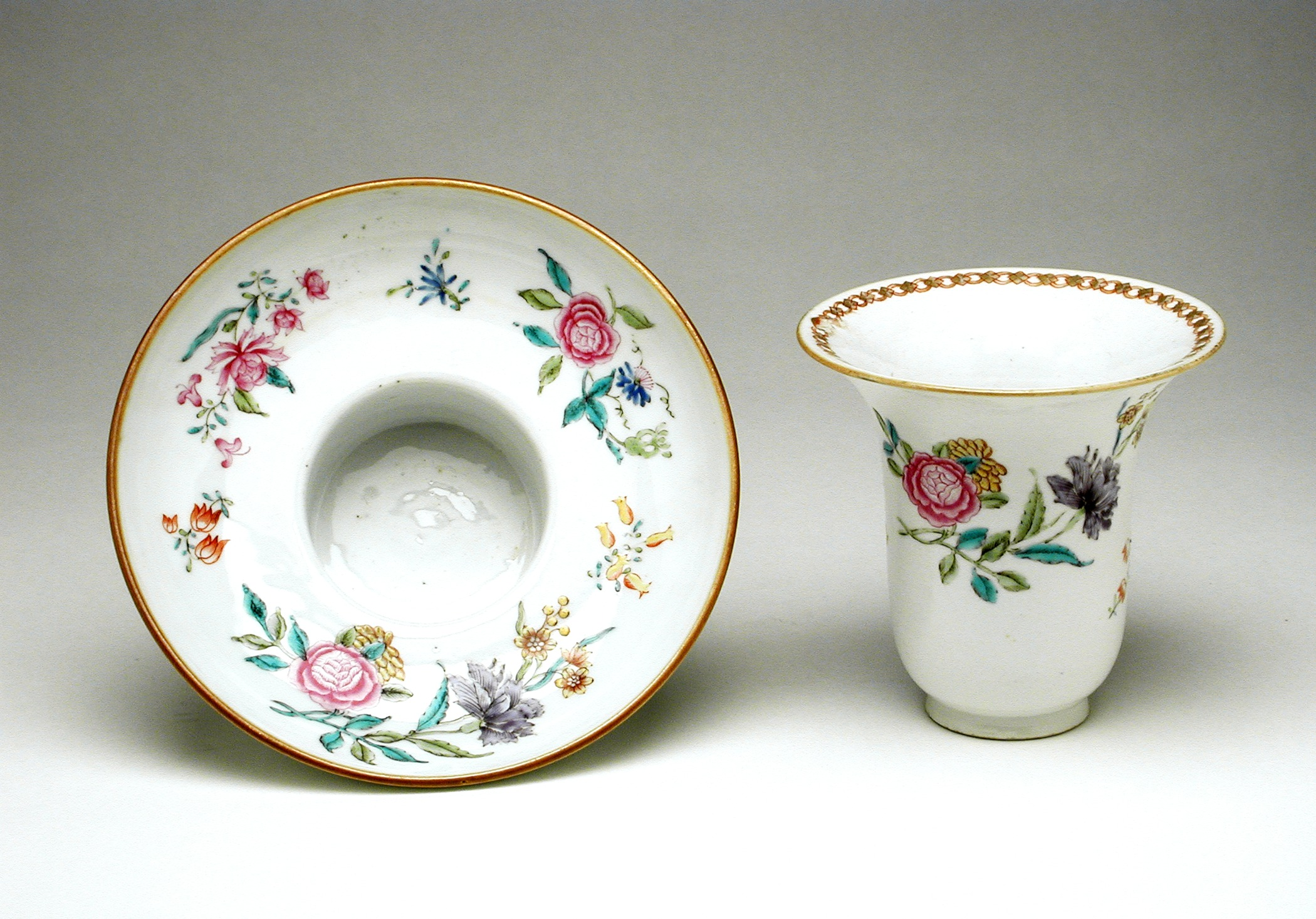 China, Qianlong Period, 1750-1775 Furnishings; Serviceware Porcelain with glaze and enamel Gift of the Winfield Foundation (55.36.22a-b) Decorative Arts and Design Currently on public view: Hammer Building, floor 3